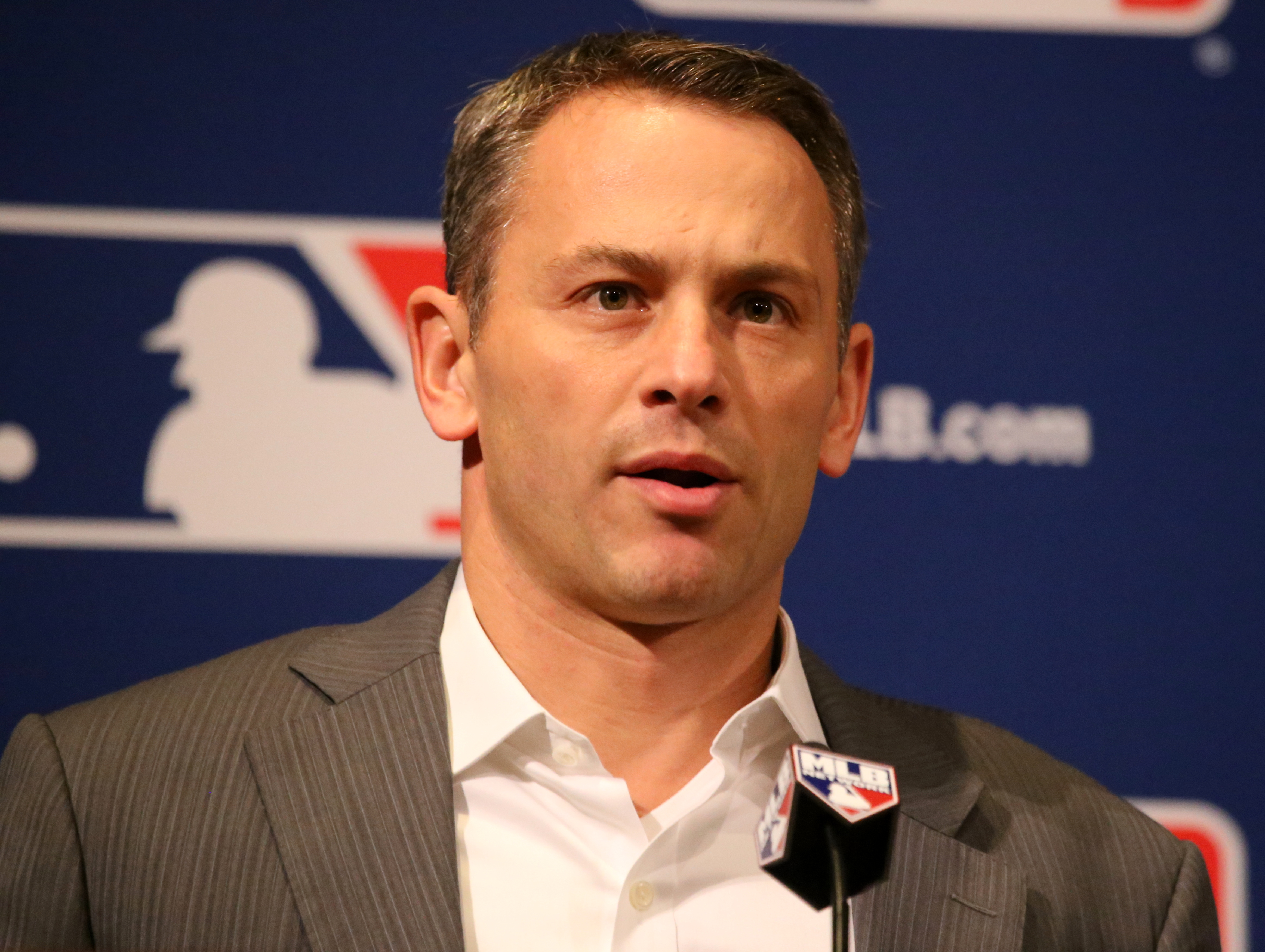 Cubs general manager Jed Hoyer speaks at the #WinterMeetings.